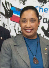 Guadalupe Valdez (b. Mexico City, 1957), Dominican Republic deputy for the 'Alliance for Democracy' (APD), in a official visit to Ecuador